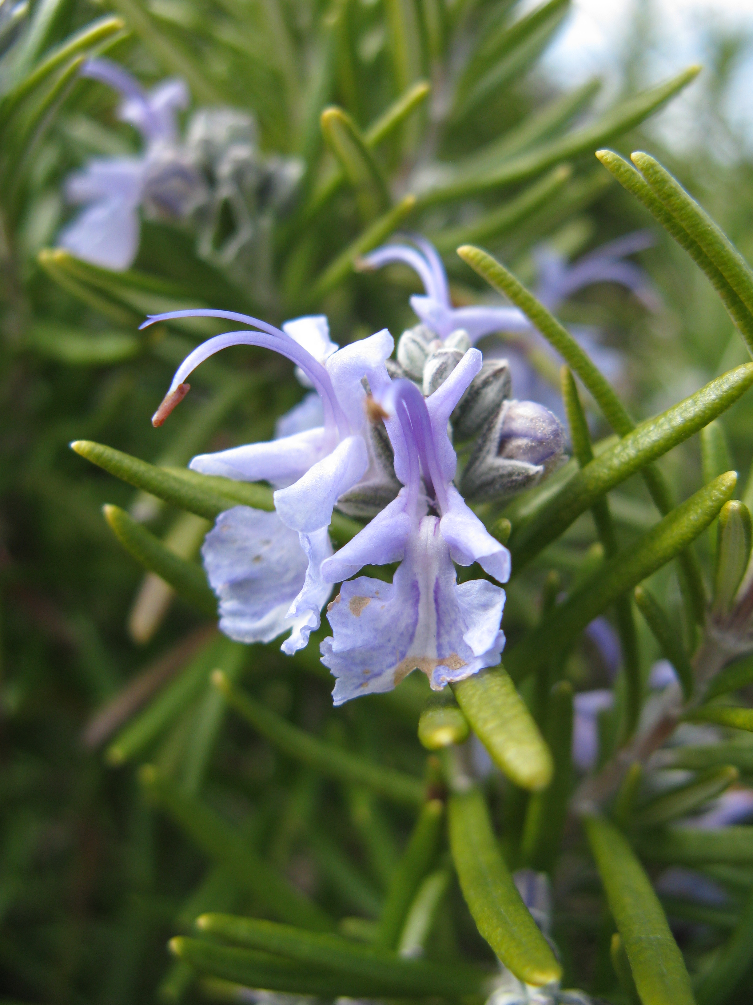 Rosmarinus officinalis 'Tuscan Blue'